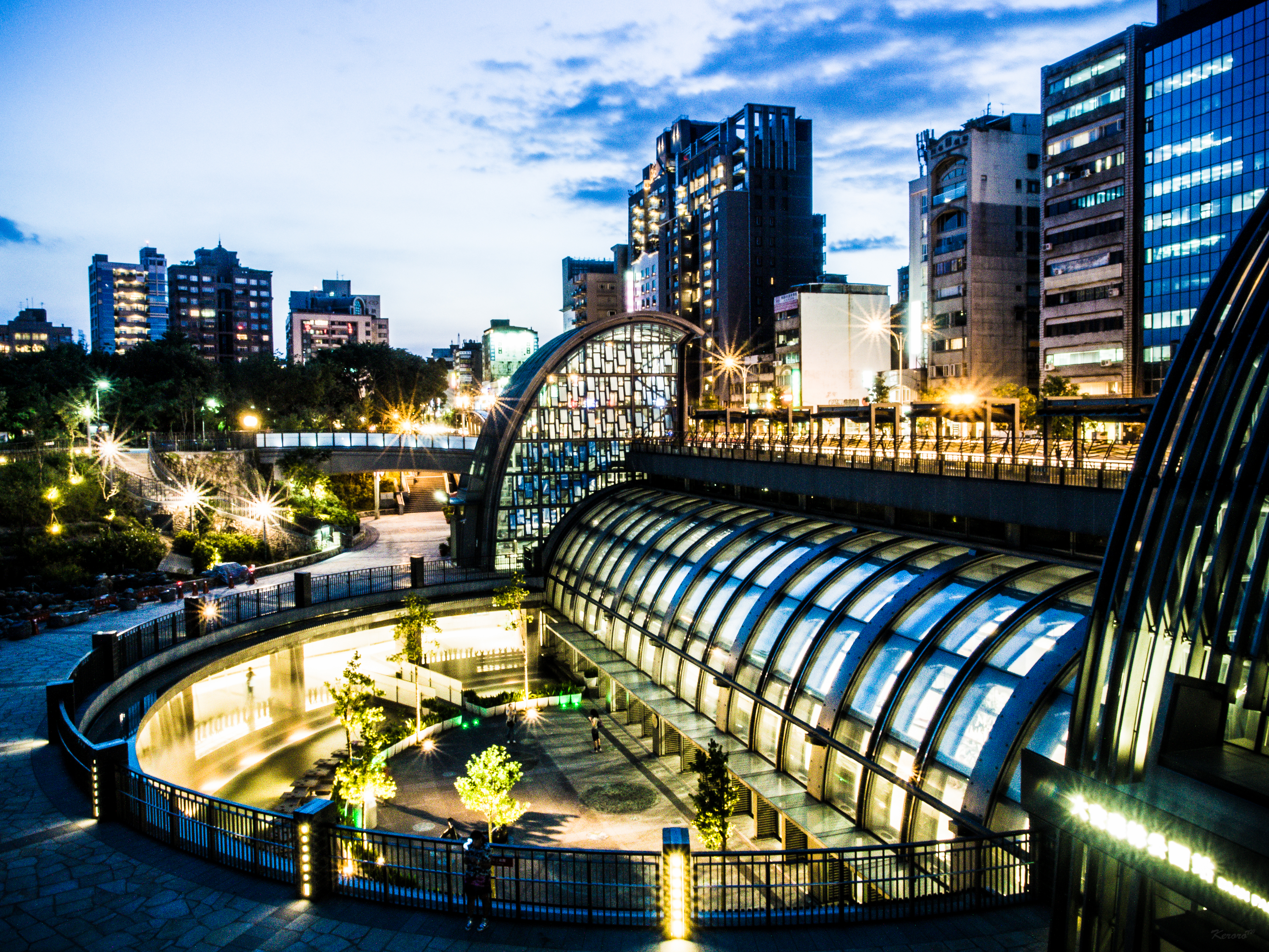 Night in Daan Park Station, Taipei Metro